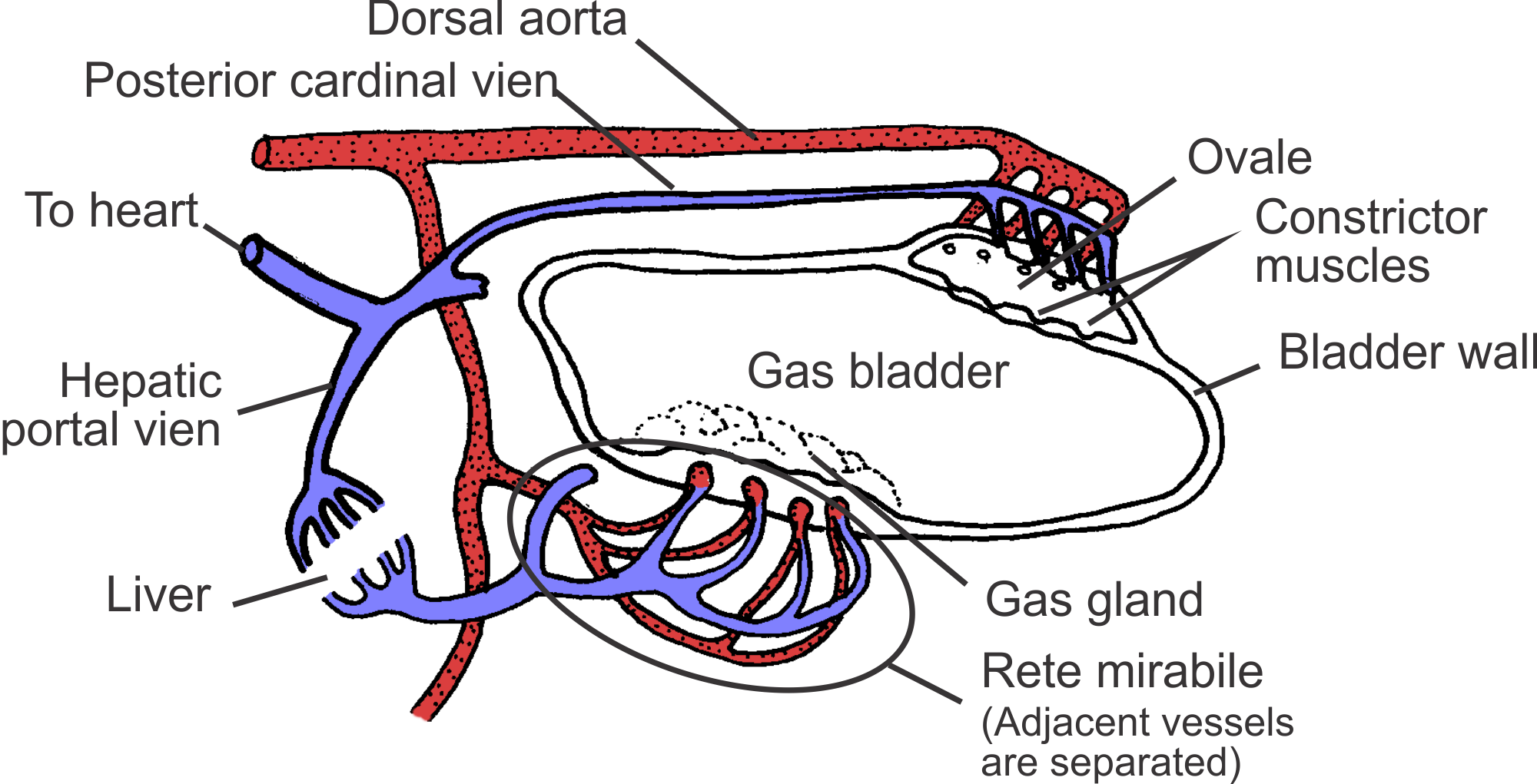 Labelled drawing of the swim bladder from a bony (teleost) fish. Adapted, with permission, from an outline drawing available on BIODIDAC.